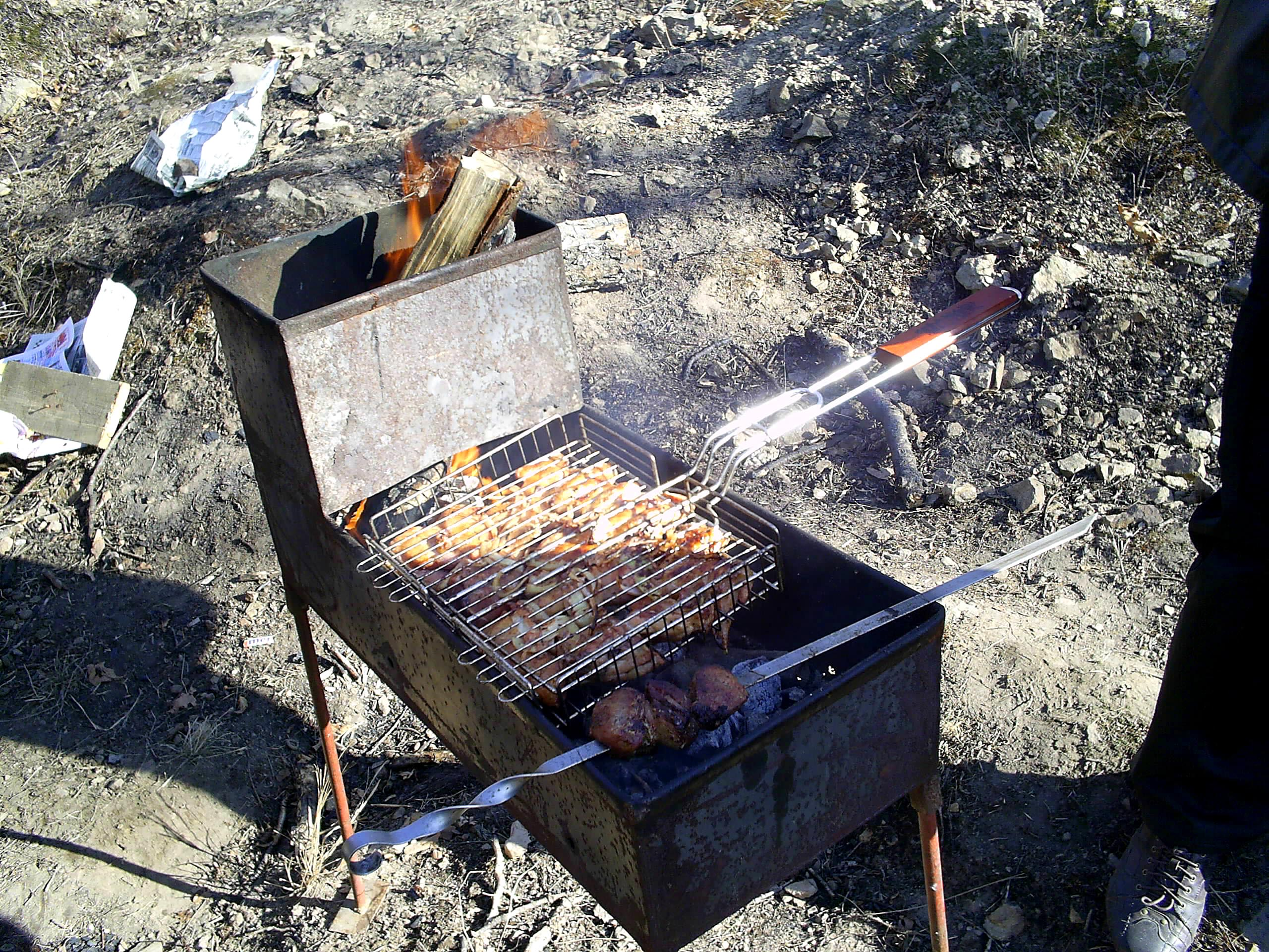 Preparing pork and chiken shashlyks (Nakhodka, Russian Federation)